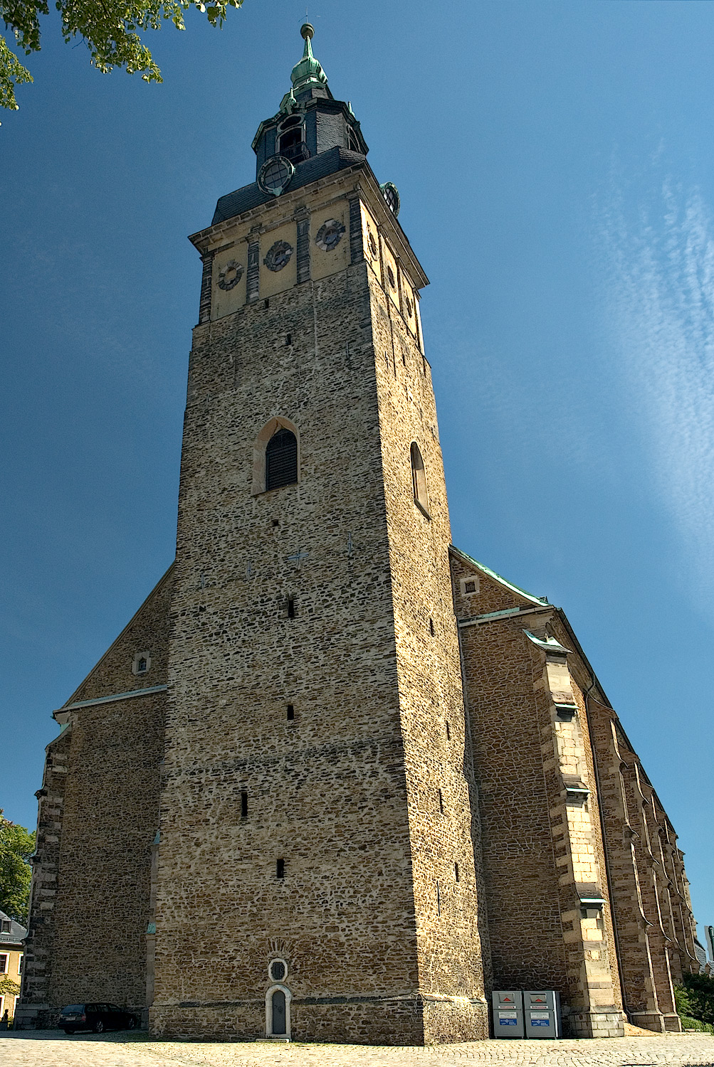 This image shows the church "St. Wolfgangskirche" in Schneeberg (Saxony, Germany).